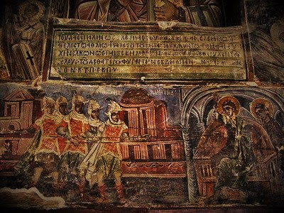 Saint Nicholas Church in Velvendo Frescos